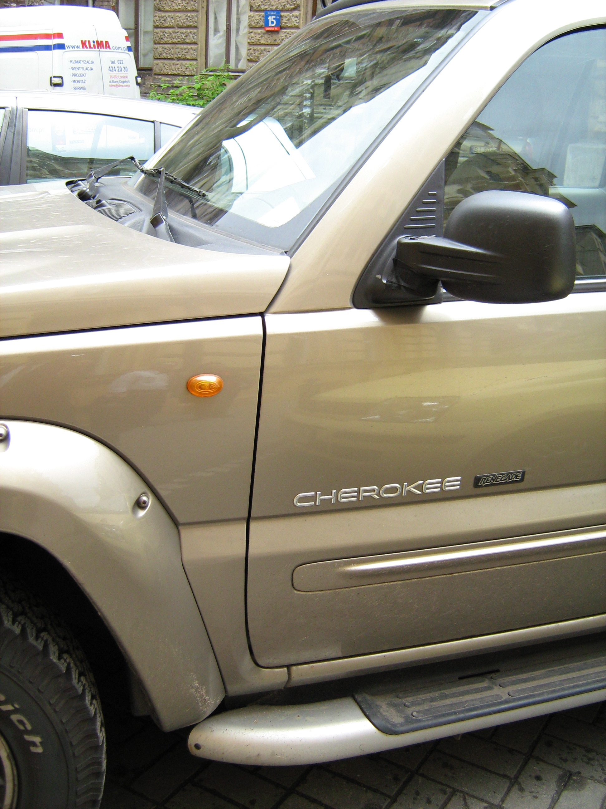 Jeep KJ Liberty in the European markets is known as a Cherokee, as seen on this automobile badge. Picture taken on ulica Foksal in the Śródmieście of Warsaw Poland.